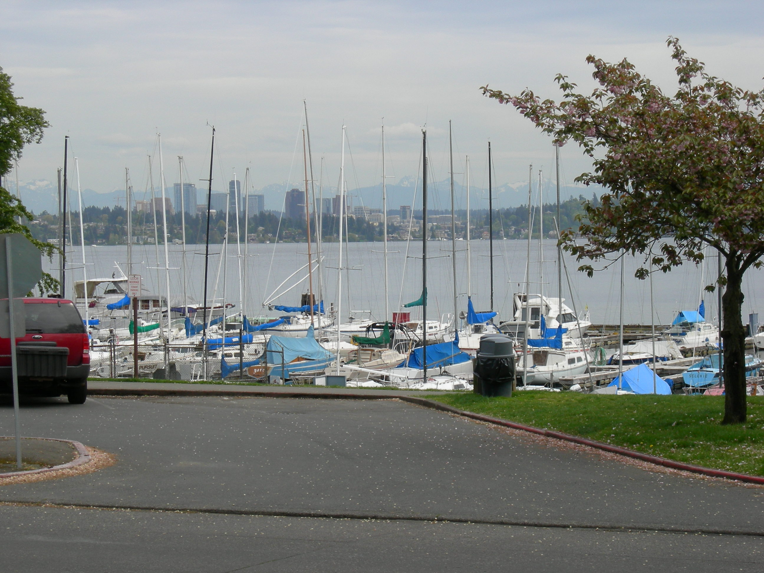 Marina at Leschi, Seattle, Washington. Downtown Bellevue, Washington can be seen in the background.